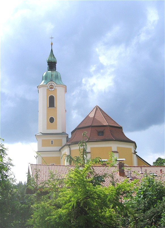 Miesbach, exterior view of the Parish Church of the Assumption facing west.